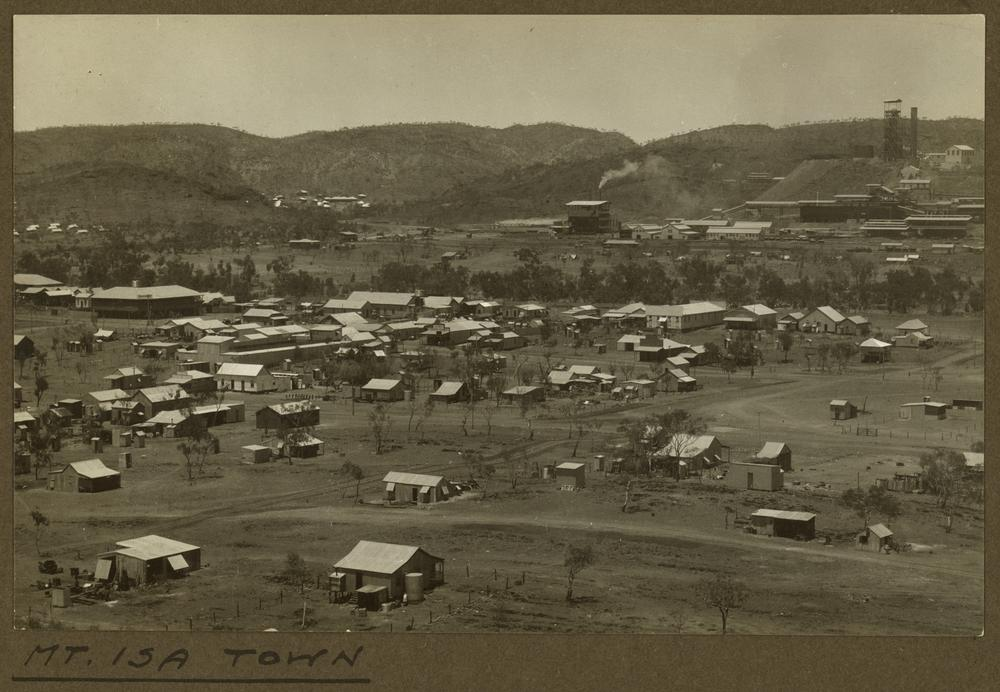 Elevated view of the mining town of Mt. Isa, 1932